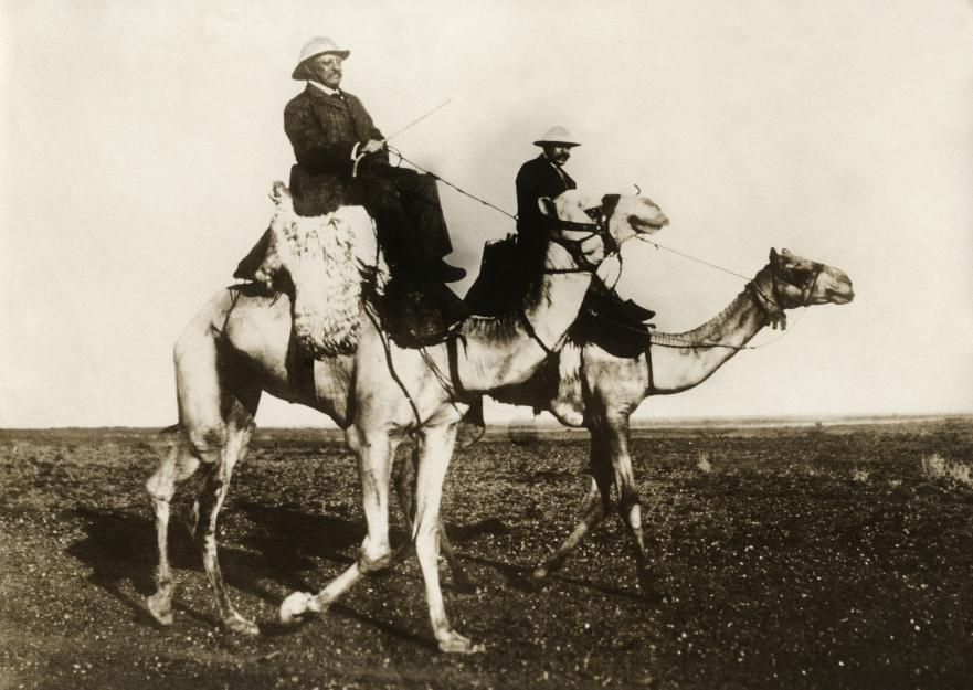 American President Theodore Roosevelt (to the left) on a camel in the desert in the neighbourhood of Khartoum (Capital of Sudan), accompanied by Baron Sir Rudolf von Slatin Pasha, an English baron converted to Islam. Photo out of 1910. Hebt u meer informatie over deze foto, laat het ons weten. Laat een reactie achter (als u ingelogd bent bij Flickr) of stuur een mailtje naar: Please help us gain more knowledge on the content of our collection by simply adding a comment with information. If you do not wish to log in, you can write an e-mail to: Meer foto’s van Spaarnestad Photo zijn te vinden op onze beeldbank